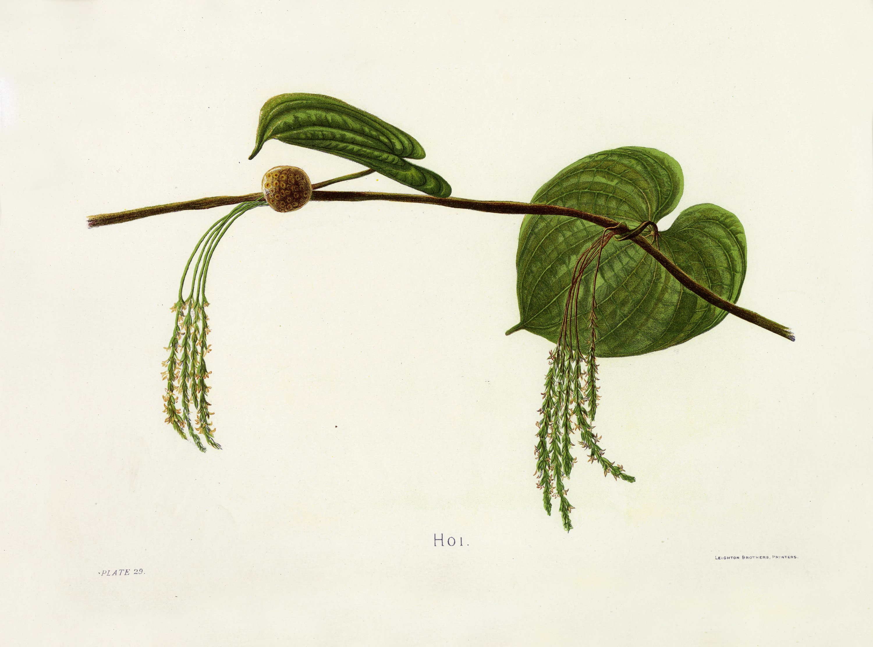 Indigenous Flowers of the Hawaiian Islands by Mrs. Frances Sinclair, Plate 29 (Dioscorea bulbifera)